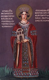 Empress Irene of Trebizond (d. after 1382)